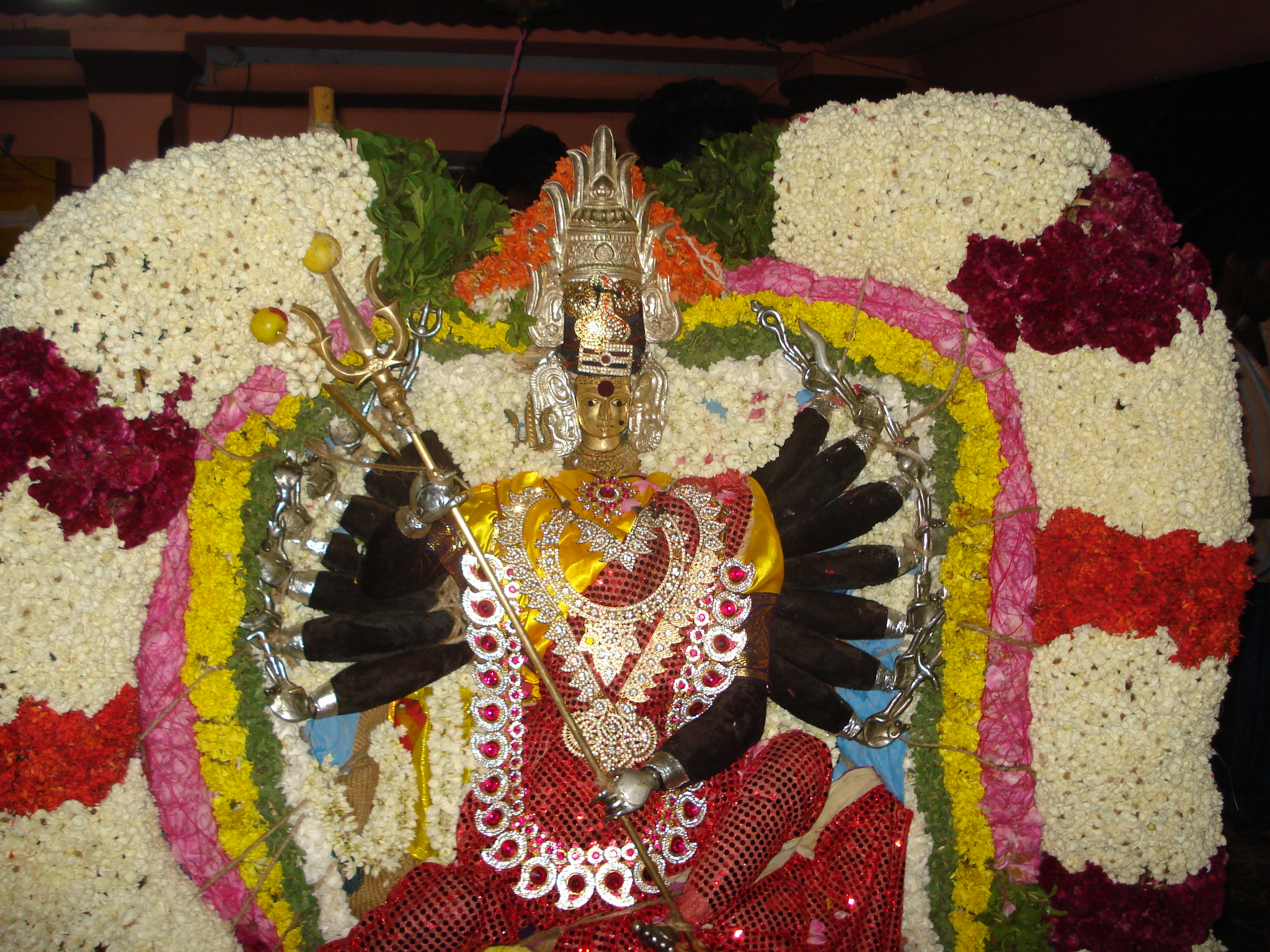 Sri Devi Ellamman Decoration